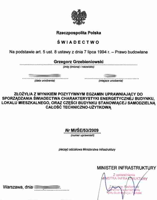 Specimen of the Polish Energy Auditor's licence. Further description from User:Powerek38: "Basically, the Polish Construction Act (Prawo budowlane) requires each building to have a special document which can be called in English the Energy Certificate (as far as I know it states how much energy this building uses etc.). This file is a specimen of a licence for an auditor who, having obtained such a licence, can issue the Energy Certificates."